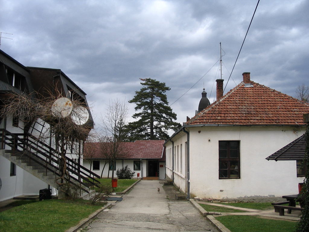 Petnica Research Station